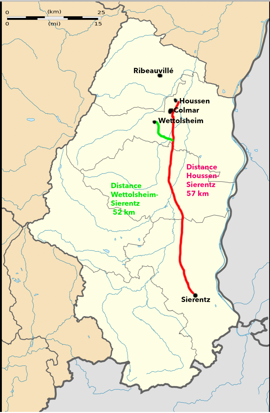 carte du haut-rhin avec quelques distances